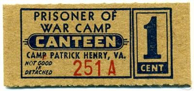 Camp Patrick Henry POW Canteen 1 Cent Coupon